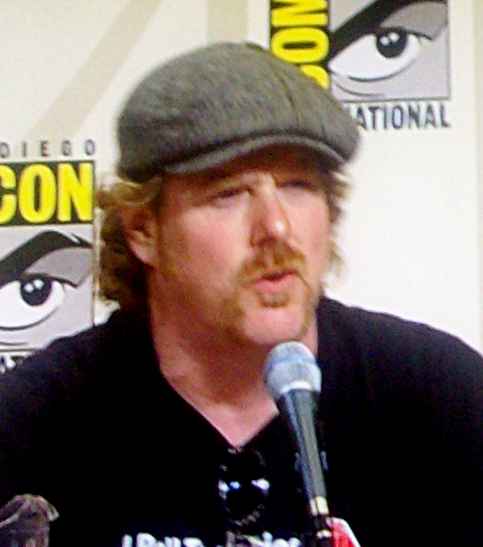 Self-made photo of John DiMaggio at the 2008 Comic Con in San Diego, California, on a panel for Futurama.